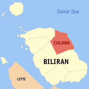 Map of Biliran showing the location of Culaba